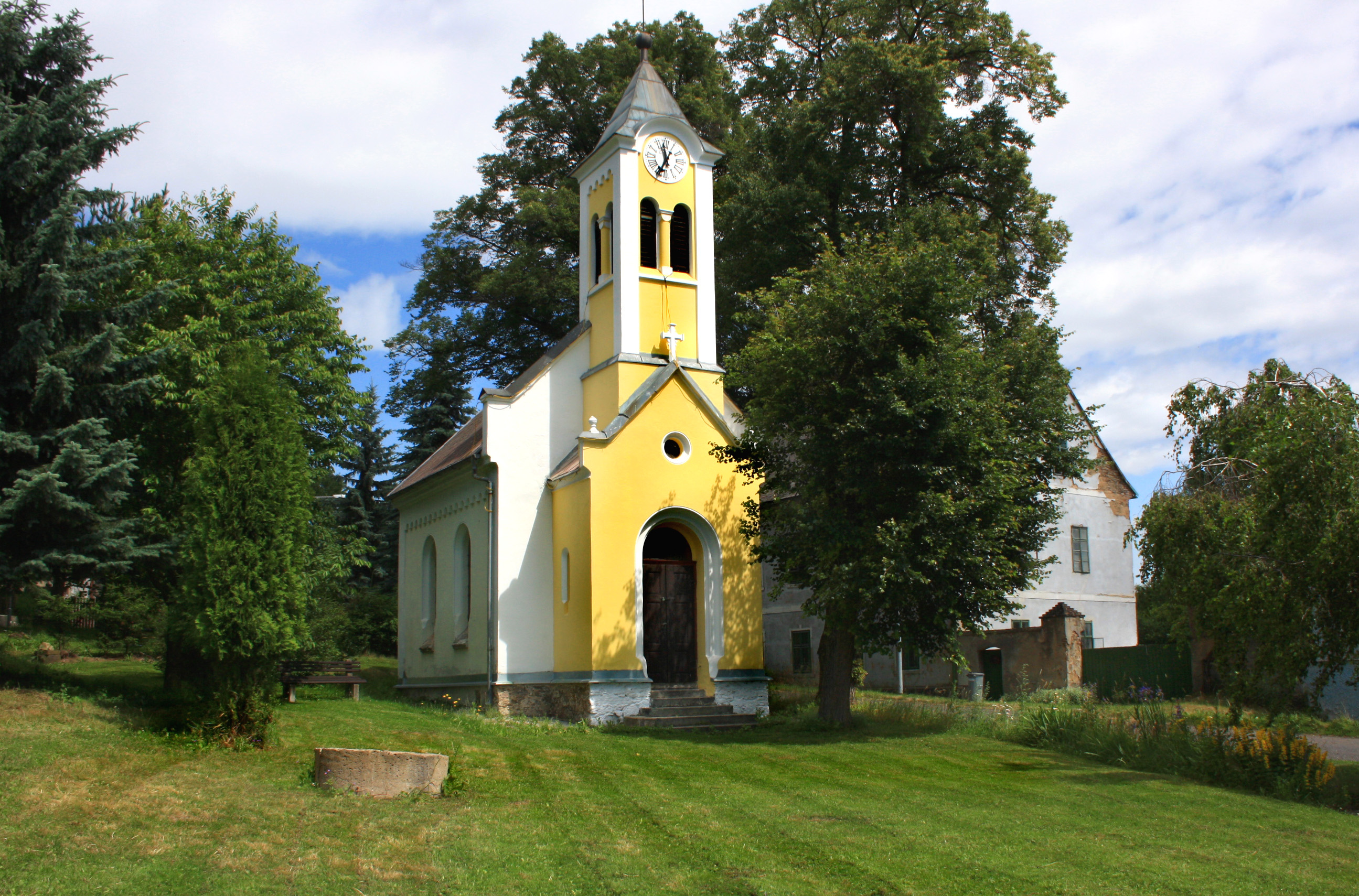 Small church in Jindřišská, part of Jirkov, Czech Republic